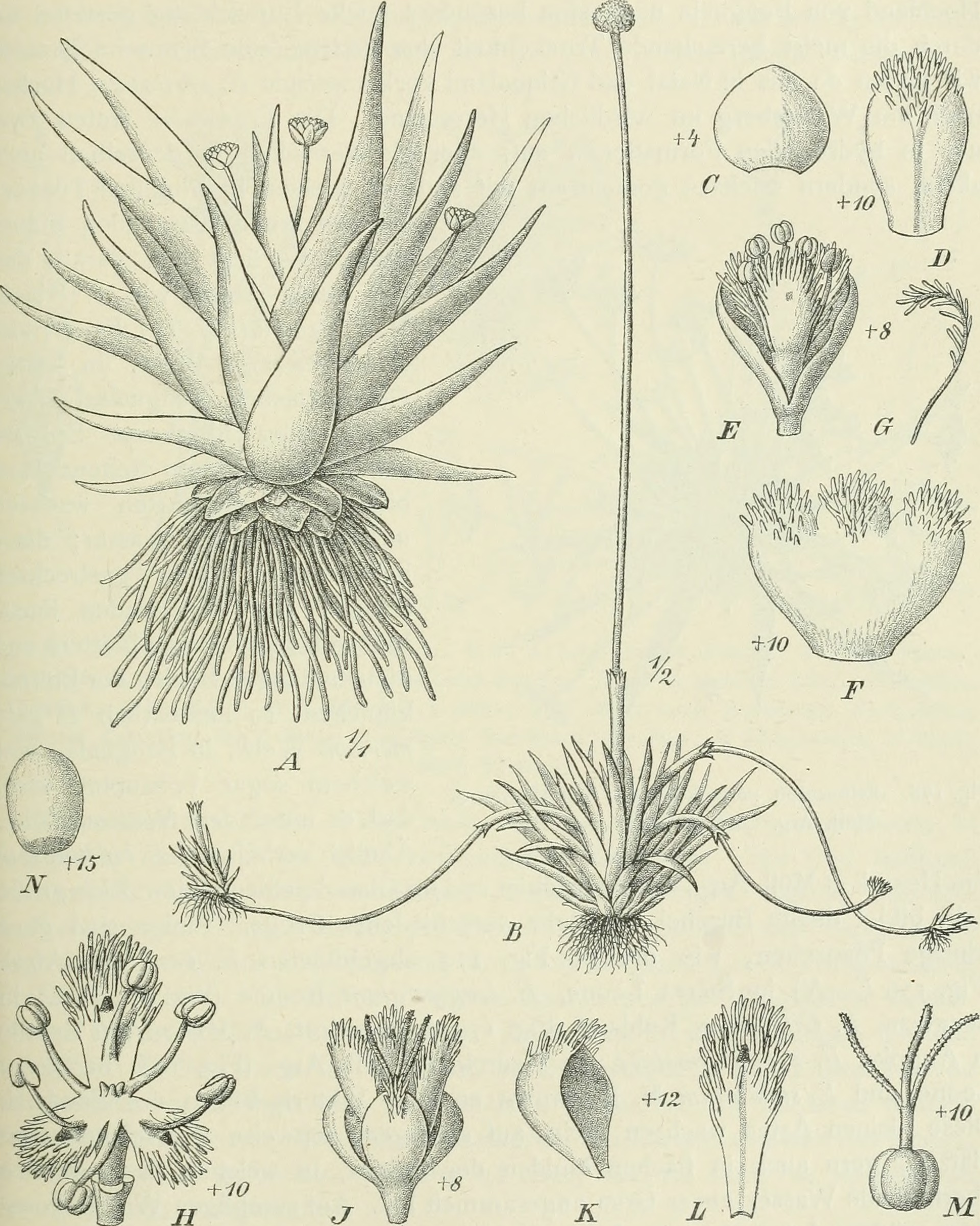 Title: Die Pflanzenwelt Afrikas, insbesondere seiner tropischen Gebiete : Grundzge der Pflanzenverbreitung im Afrika und die Charakterpflanzen Afrikas Year: 1910 (1910s) Authors: Engler, Adolf, 1844-1930 Subjects: Botany Publisher: Leipzig : W. Engelman Text Appearing Before Image: Farinosae. — Eriocaulaceae. 263 b) Blumenblätter der ^ Blüten in eine trichterförmige Röhre vereinigt, die der 5-' Blüten unten frei, im übrigen mit den Rändern verwachsen '. Mesanthemum. B. Staubblätter ebensoviel wie Blumenblätter; diese ohne Drüsen. Die Blumen- blätter am Grunde und an der Spitze frei, in der Mitte verwachsen Syngonanthus. Text Appearing After Image: Fig. 177. A Eriocaulon Volkensii Engl, vom Kilimandscharo. B—N E. Woodli N. E. Brown. B Habitus; C Hüllblatt; Z» Deckblatt; E (5 Blüte; F Kelch der (5 Blüte; G Längsschnitt durch denselben; // (5 Blüte nach Entfernung des Kelches; J 9 Blüte; A' Kelchblatt derselben L Blumenblatt derselben; Af Pistill'; N Same. — Nach Ruhland.